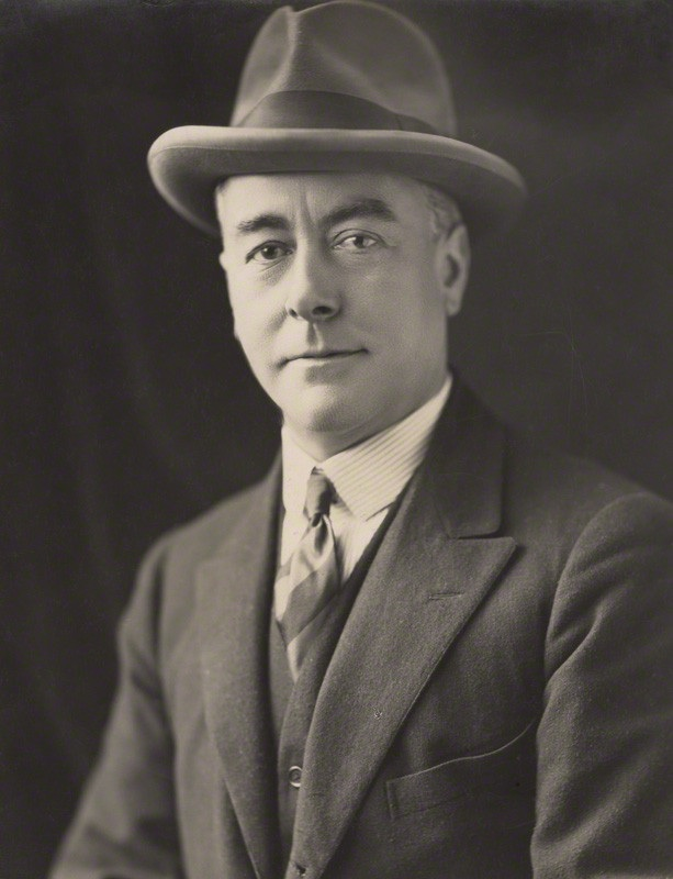 Bromide print by Henry Walter ('H. Walter') Barnett of the English music hall comedian George Robey in the 1910s.